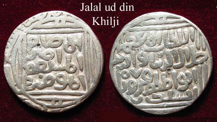 This is a Tanka coin of Jalal ud din Firoz of Delhi from my cabinet.